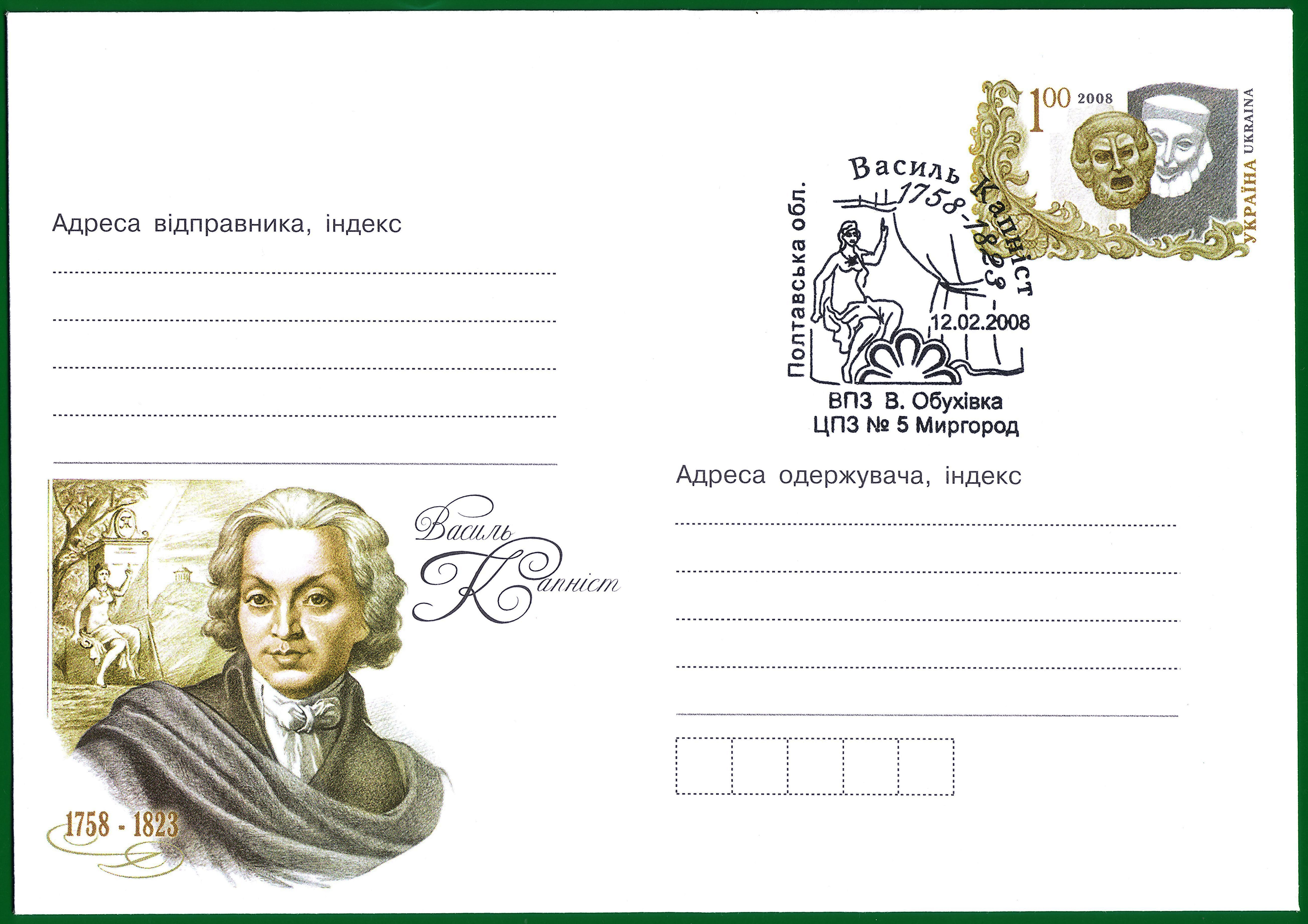 Original stamp of Ukraine and a postmark of Mirgorod-5, 12/02/2008.